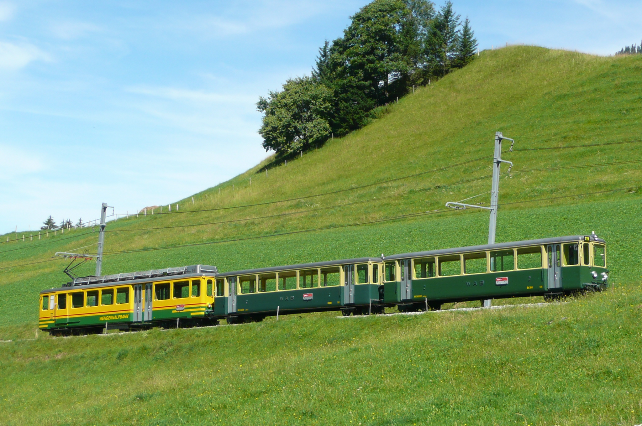 Wengernalp rack railway summer shuttle train composition since 1970 motor coach BDhe 4/4 119 of 1970 in 1998 colouring and passenger coaches built 1962-1968 in older colouring. Line Lauterbrunnen-Kleine Scheidegg – 2009-08-05